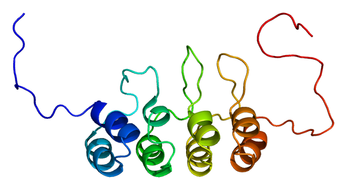 Structure of the CDKN2A protein. Based on PyMOL rendering of PDB 1a5e.